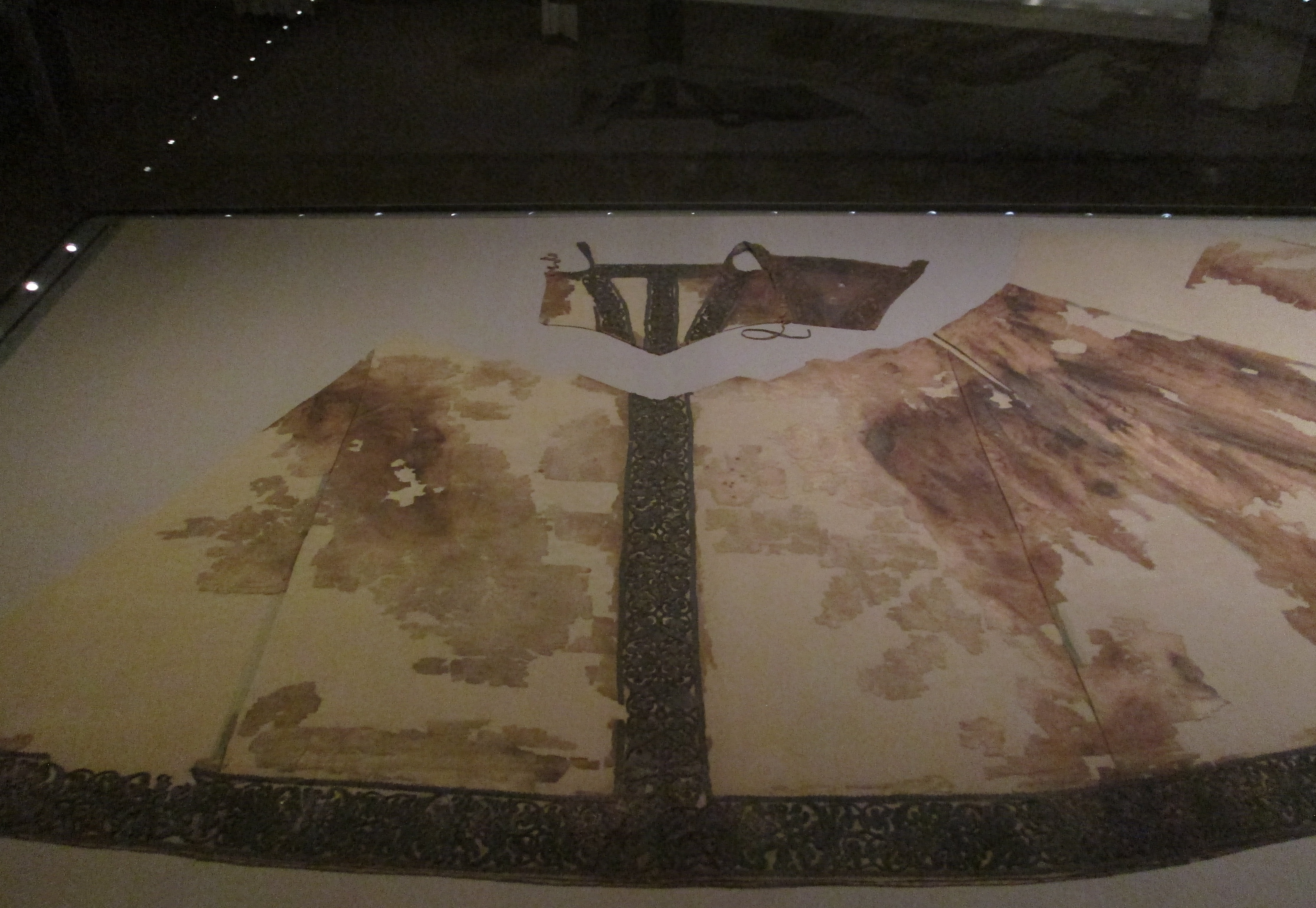 Eleanor of Toledo's funeral gown, shown in the Galleria del Costume of the Pitti Palace.